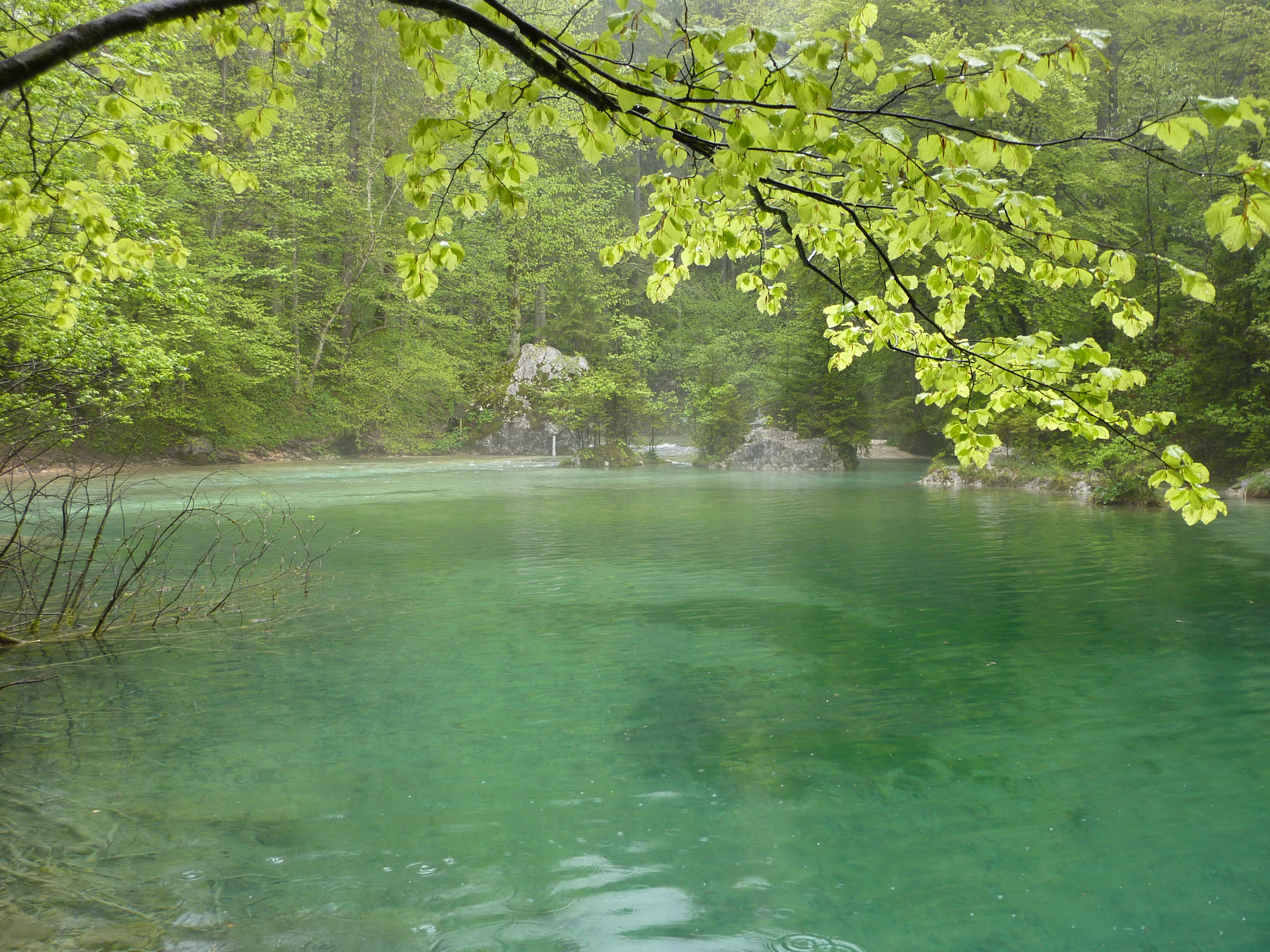 Karst spring of Kamniška Bistrica river